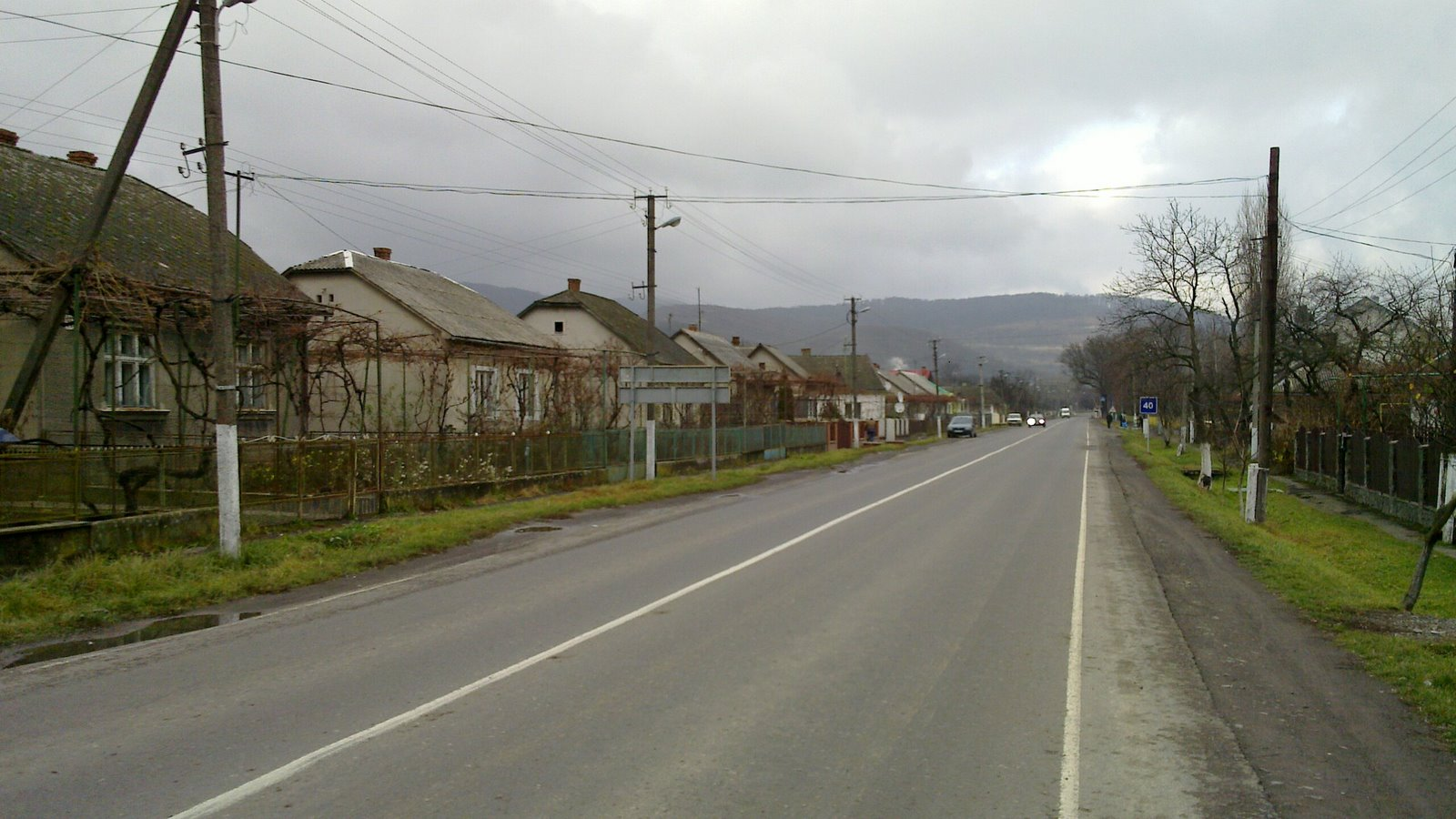 Street in Onokivtsi, Zakarpattia Oblast, Ukraine